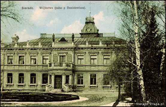 Danielewicz Palace. Postcard from 1937. Palace was burned down by German army in 1945 at the last day before their retreat. During the II WW, residence of Gen. mjr Friedrich Liegemann and later gen. Roude